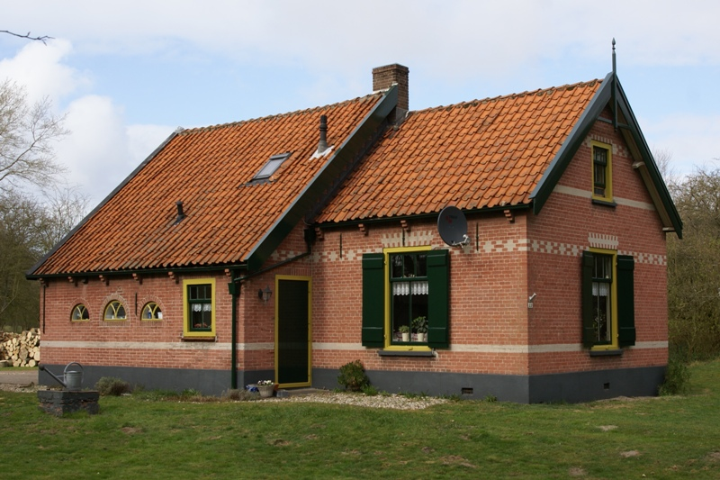 National monument no. 520829 - Duinstraat 22, Rockanje, The Netherlands.